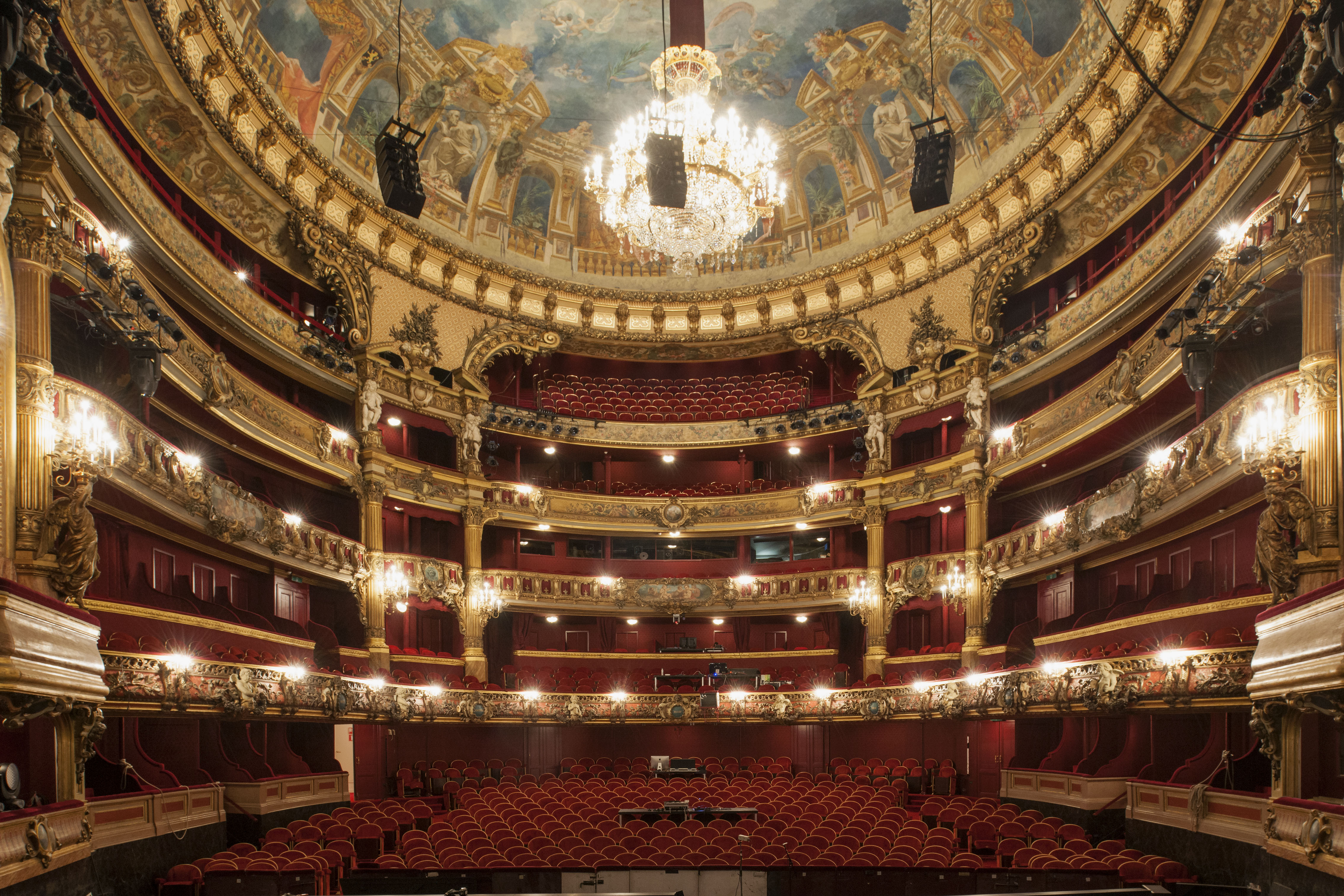 Grand room at Théâtre Royal de la Monnaie in Brussels, Belgium.